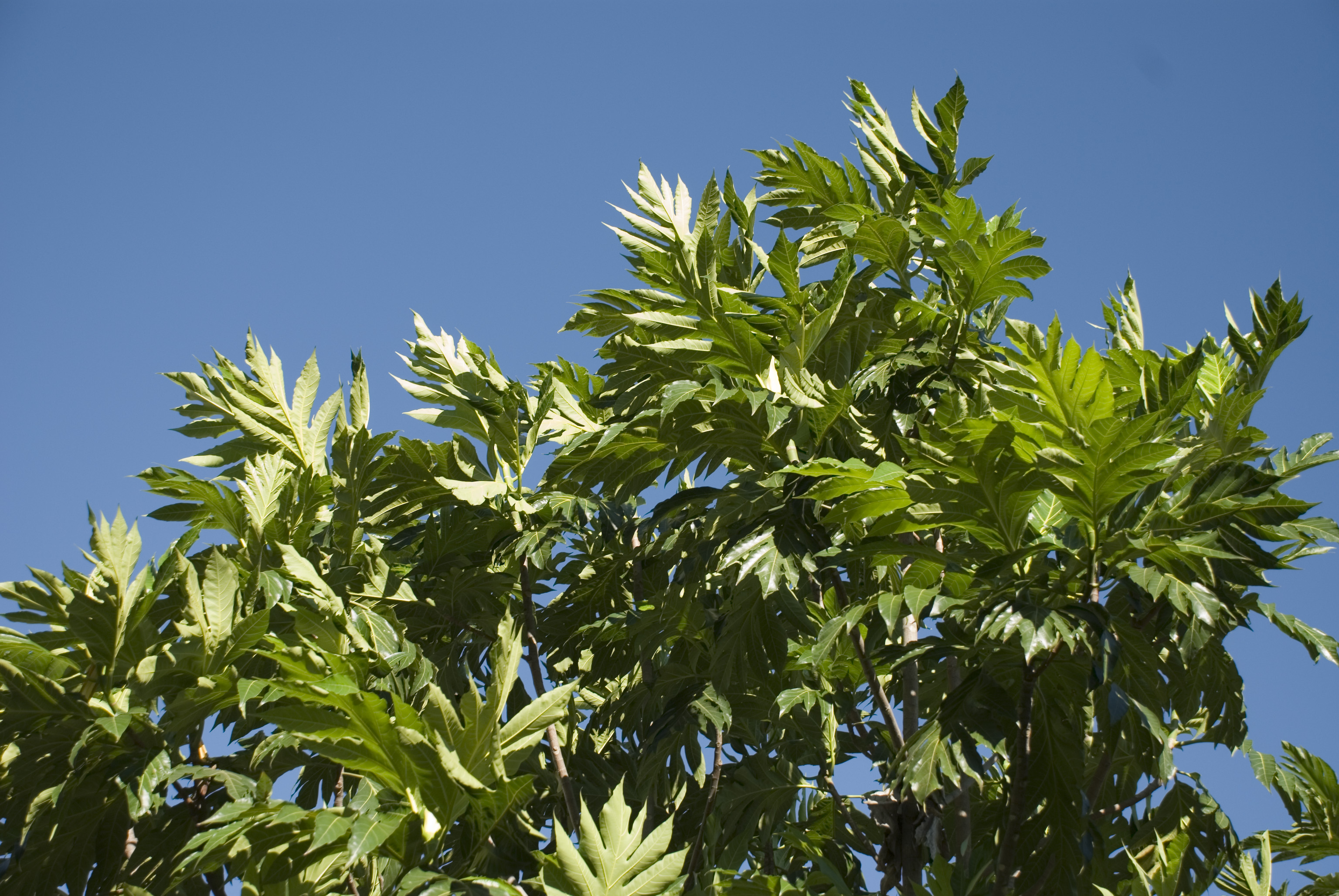 Breadfruit Tree detail Artocarpus altilis in Pape’ete, Tahiti. Camera data Camera Nikon D80 Lens Nikon AF-S DX 18-135 mm Focal length 35 mm Aperture f/4.2 Exposure time 250 s Sensivity ISO 100